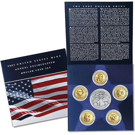 2007 United States Mint Annual Uncirculated Dollar Coin Set stock image